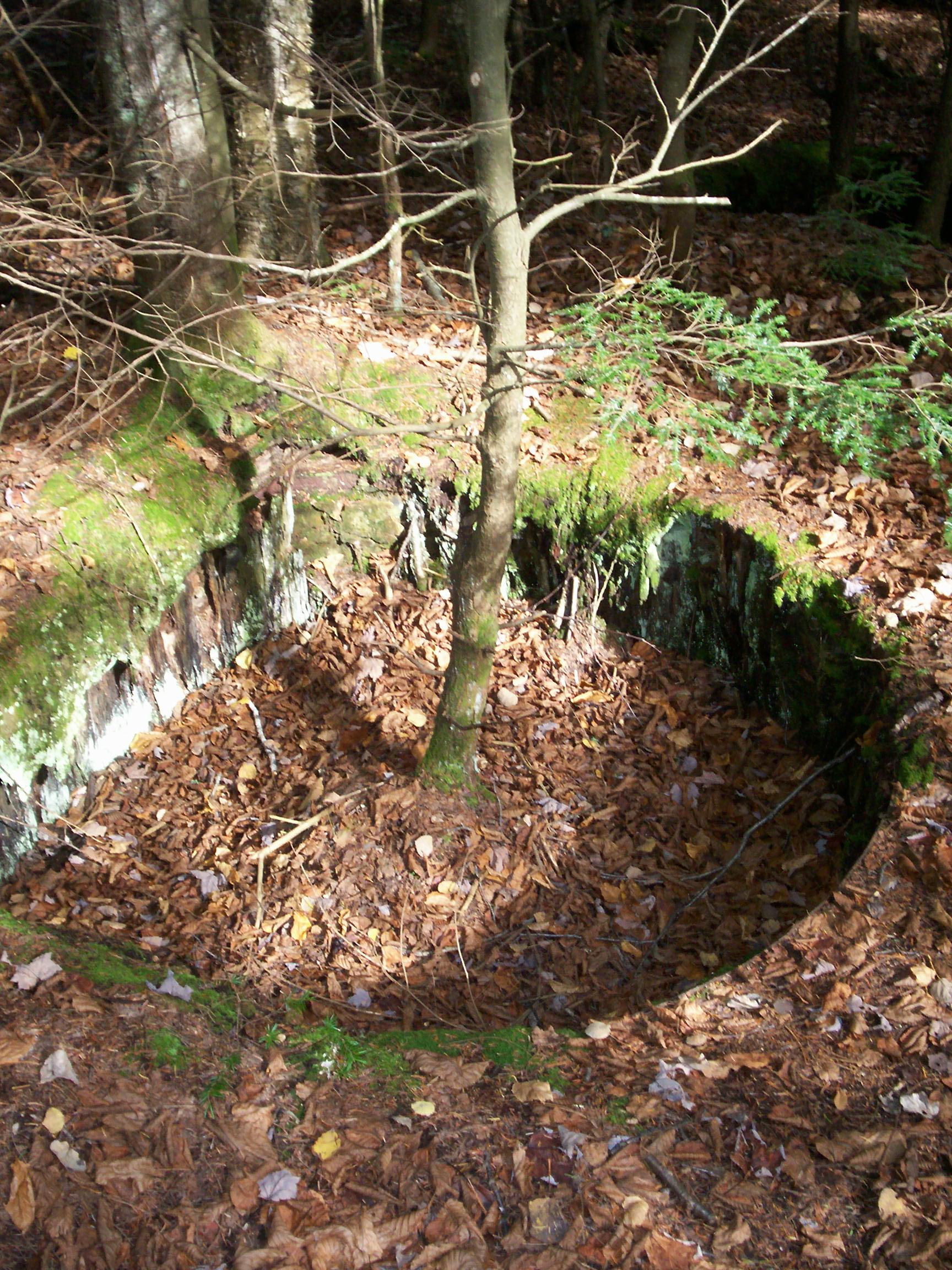 The remains of a chemical leaching process used to separate the copper from the ore. Category:Images of Michigan Category:United States mining images Summary The remains of a chemical leaching process used to separate the copper from the ore.